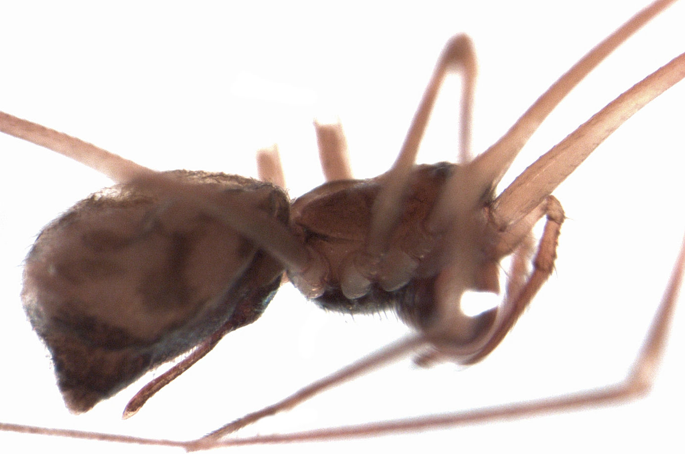 adult female Pahoroides aucklandica (lateral view)